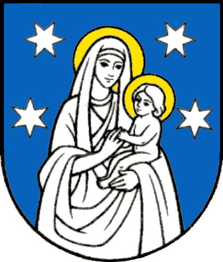 Coat of arms of Podolínec, Slovakia